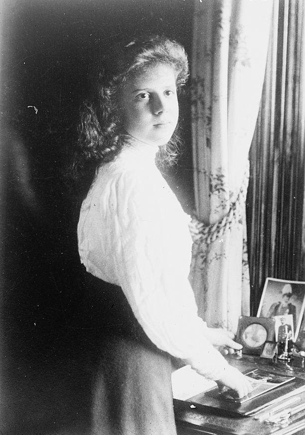 Princess Maud of Fife (1893-1945), a female line granddaughter of King Edward VII of the United Kingdom.